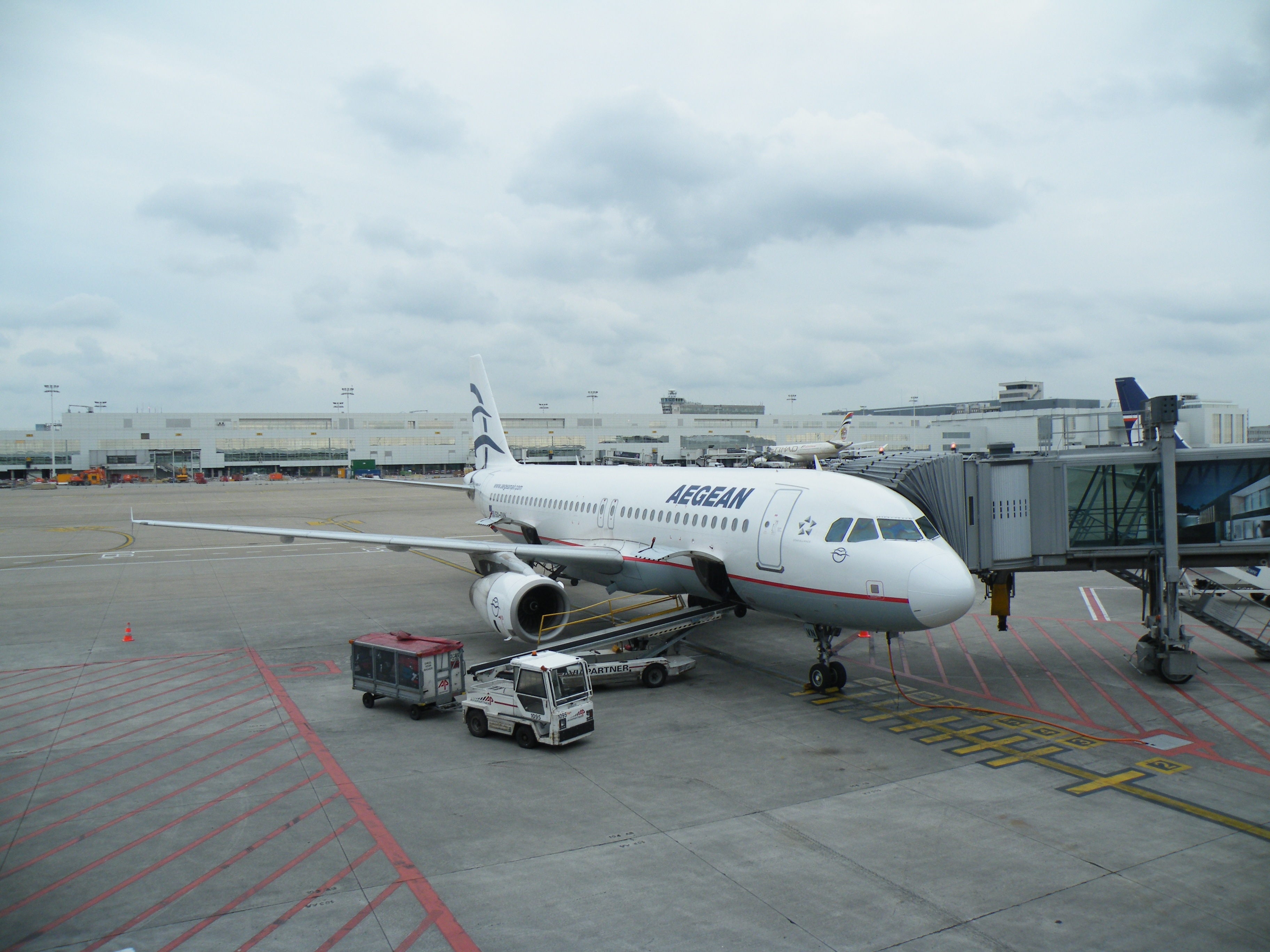 Aegean Airlines Airbus A320 at Brussels Airport.